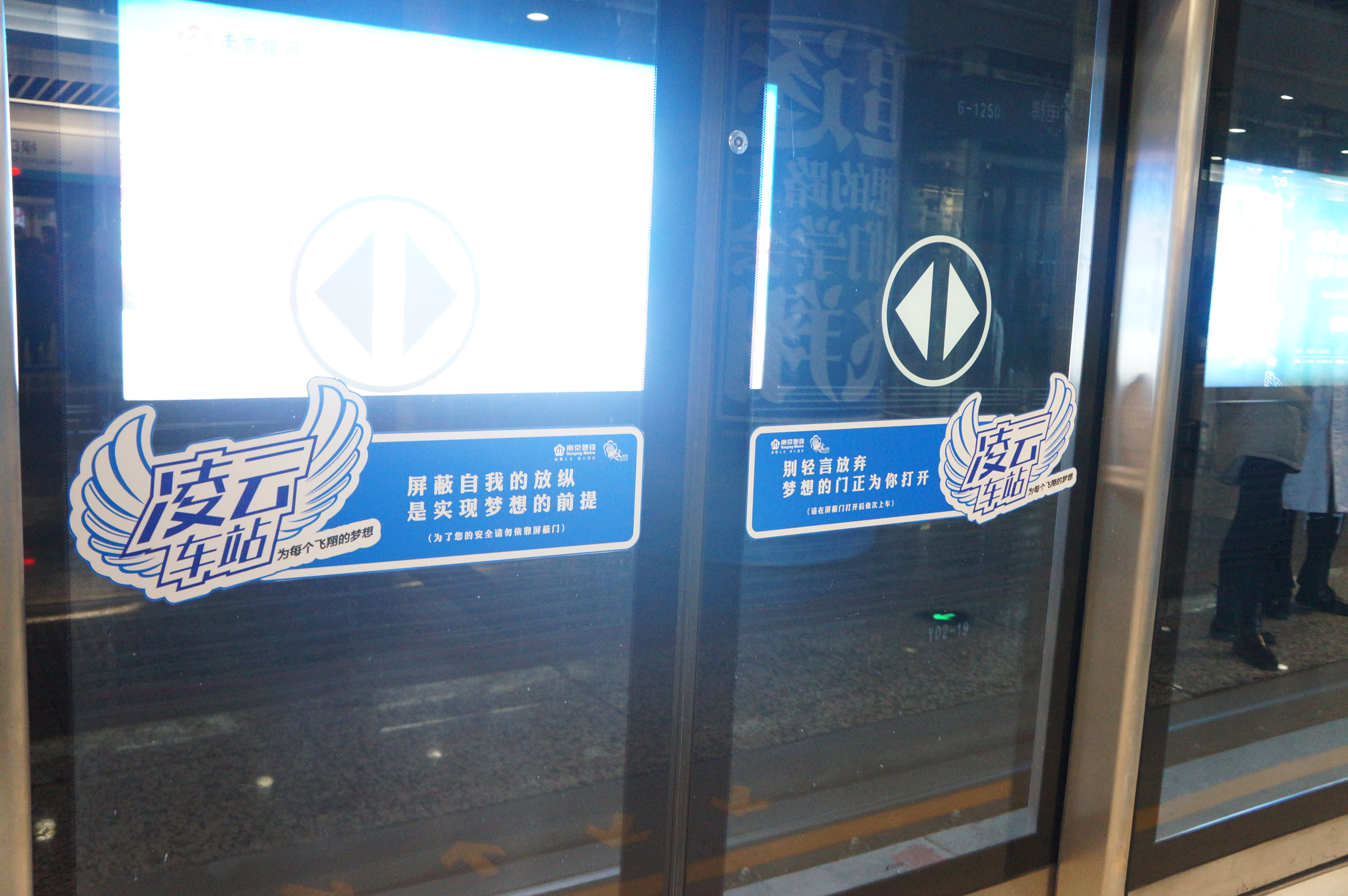 201712 Platform Screen Door of Lukou International Airport